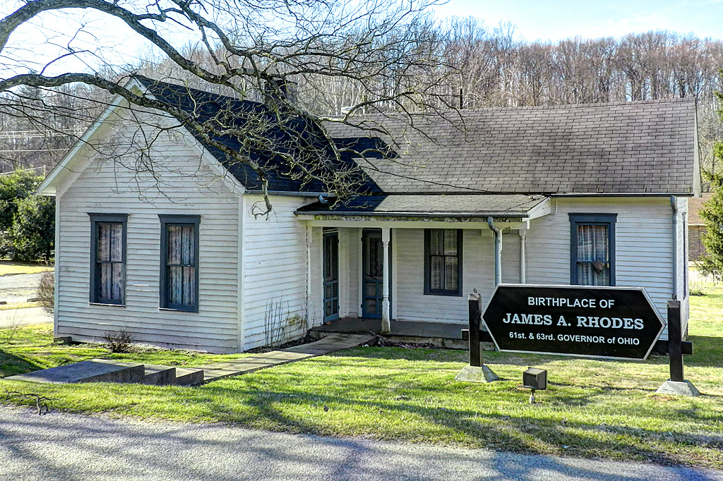 One of the friendly folks I met on a warm January day when I visited Coalton, Ohio was the mayor, She suggested that I visit the birthplace of former Governor Rhodes whose father was a coal miner. The James A. Rhodes Applachian Highway was named after him. He was also mayor of Columbus. Wikipedia has a detailed and interesting biography